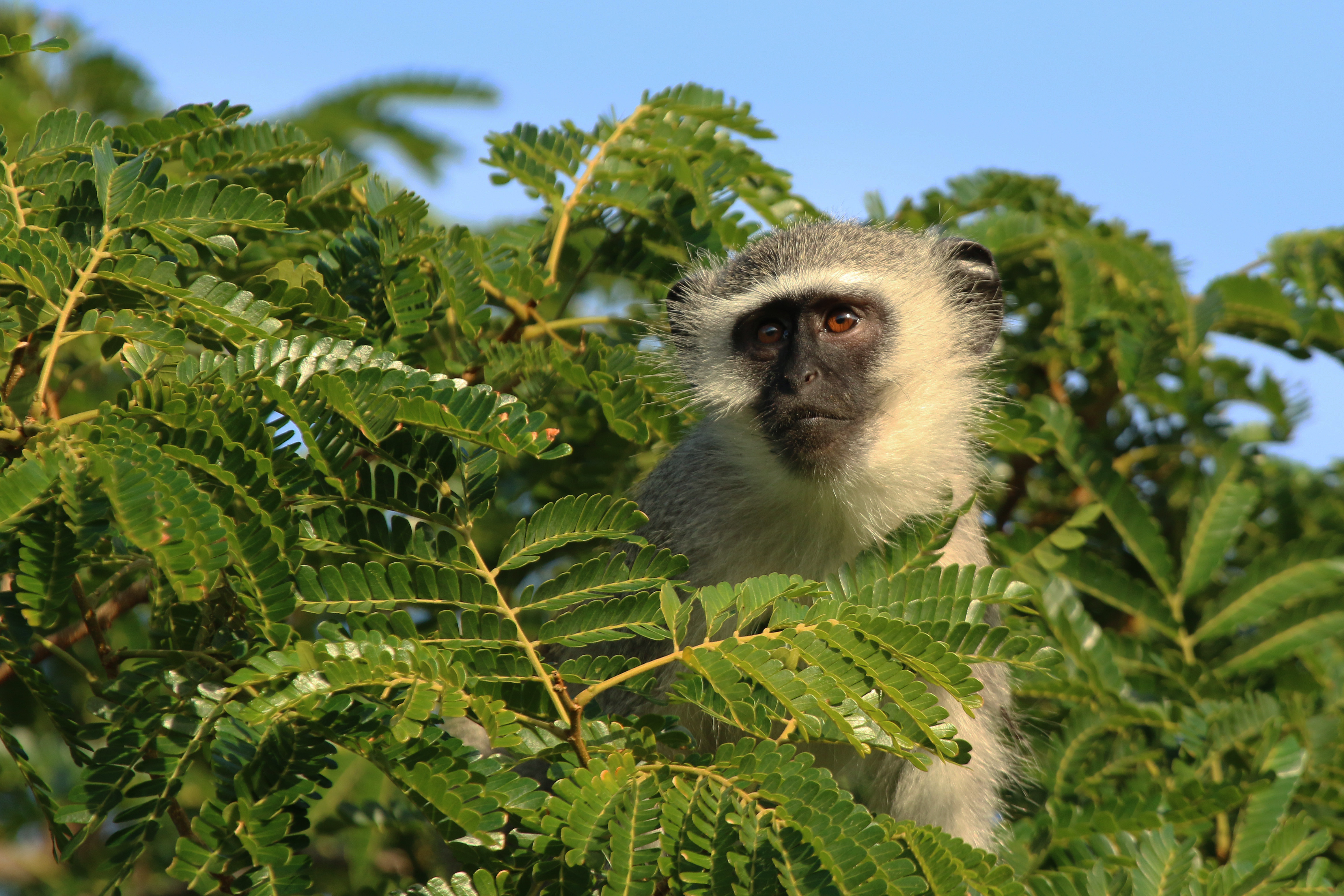 Vervet monkey (Chlorocebus pygerythrus), Mabibi, KwaZulu Natal, South Africa